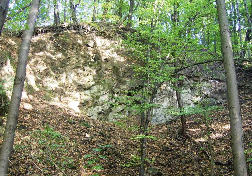 Abandoned picrite-teschenite quarry in Cieszyn (Majowa street), Poland.